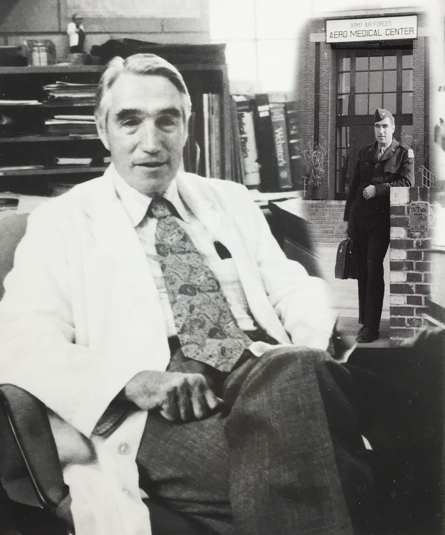 This is a photograph of Earl H Wood in his office at the Mayo Clinic and just after World War II while he was on operation paperclip, seeking to recruit German scientists to come work in the United States